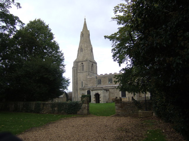 St Michael's parish church, Chesterton, Cambridgeshire (formerly Huntingdonshire), seen from the southeast